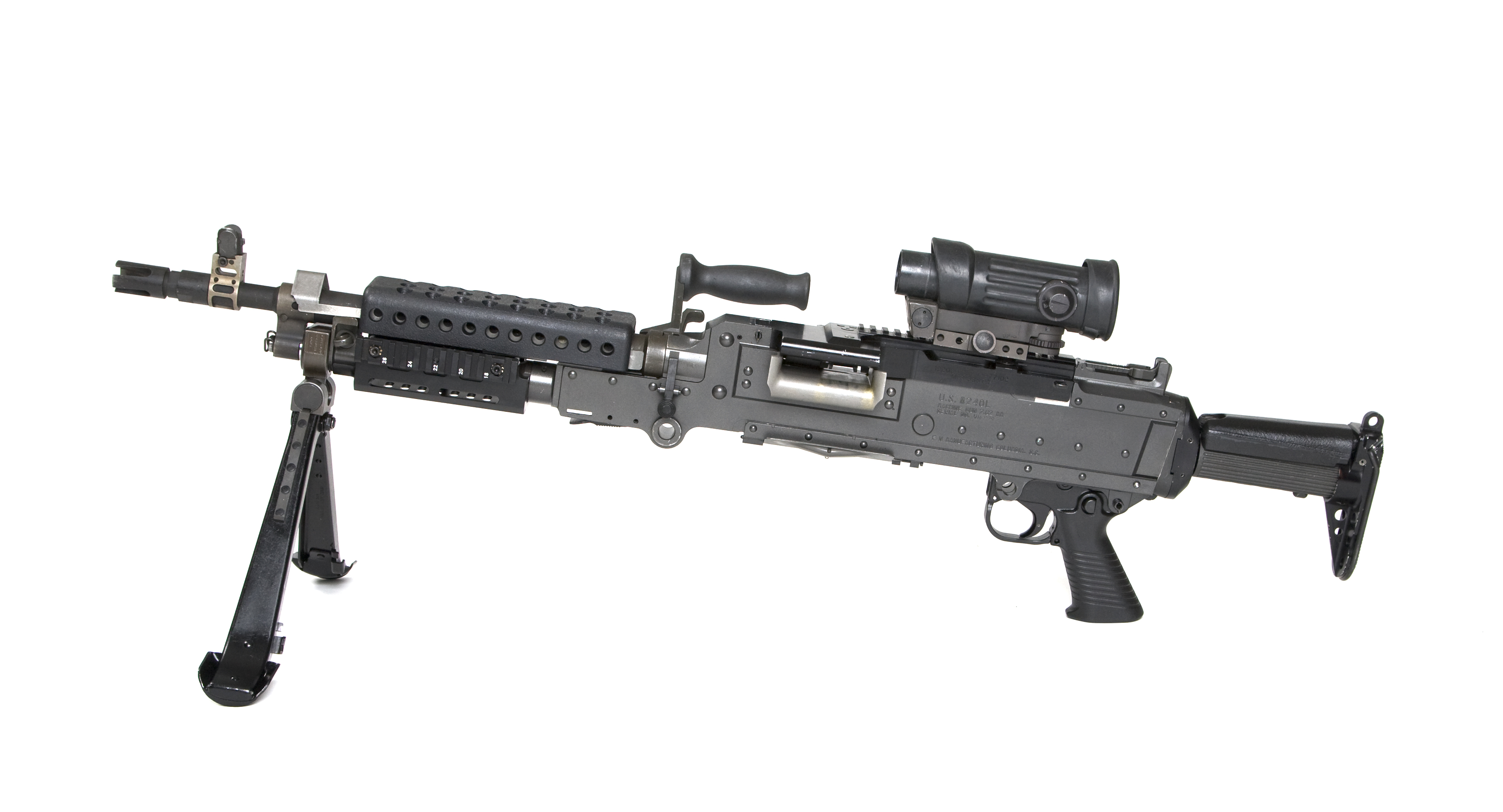 M240L 7.62mm Medium Machine Gun (Light).